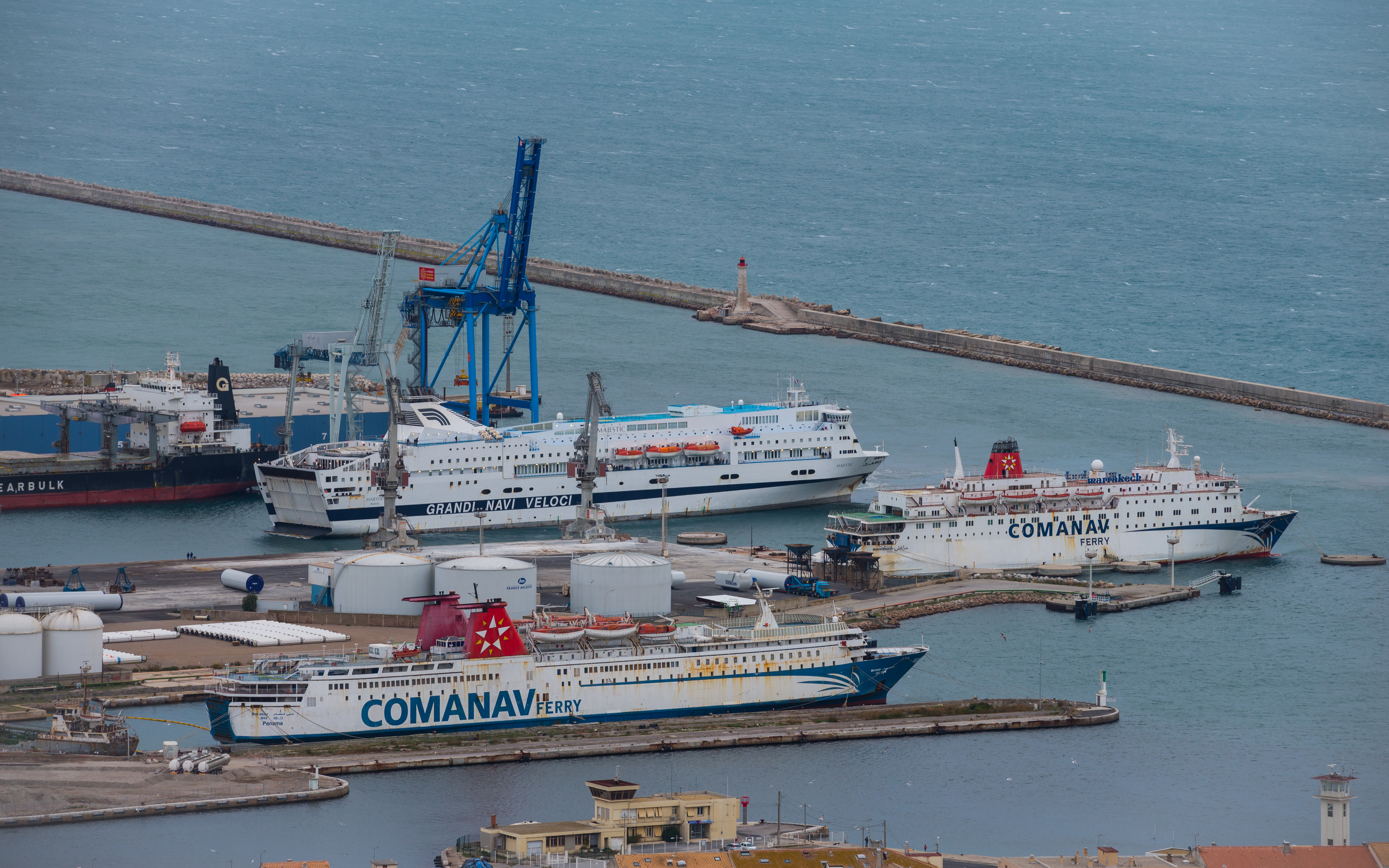 The Majestic (ferry, 1992), (lenght 188,20 m; width 27,60m); of the italian shipping line "Grandi Navi Veloci", coming from Tangier (Morocco) and manoeuvring in the harbour of Sète, Hérault, France.